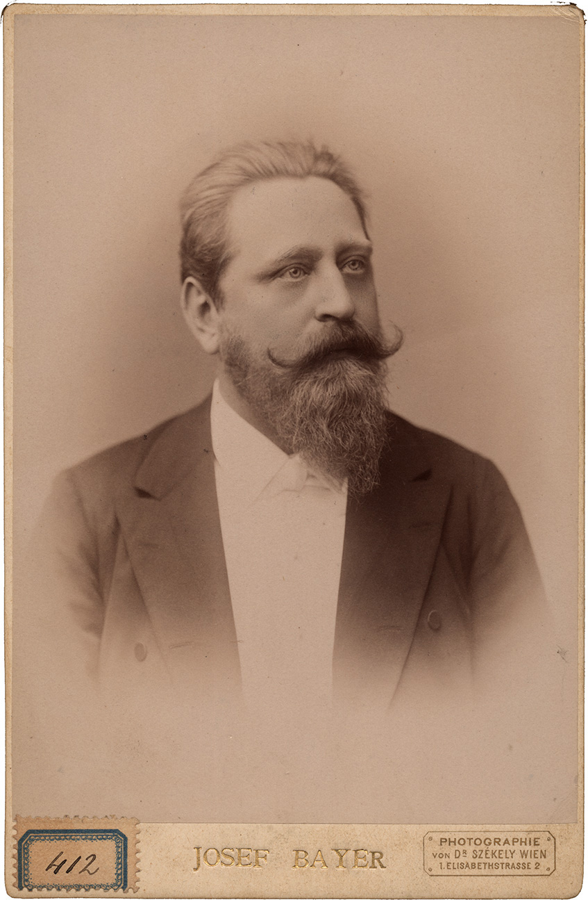 Portrait of Josef Bayer, composer (1852-1913). Photo by Szekely, Vienna, before 1913.